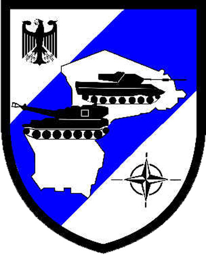 Internal coat of arms Kommandatur Truppenübungsplatz Munster (TrpÜbPlKdtr Munster) of the Bundeswehr (Armed Forces of the Federal Republic of Germany). → Remarks on naming and categorization scheme